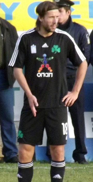 Mattias Bjärsmyr playing for Panathinaikos against Agrotikos Asteras.